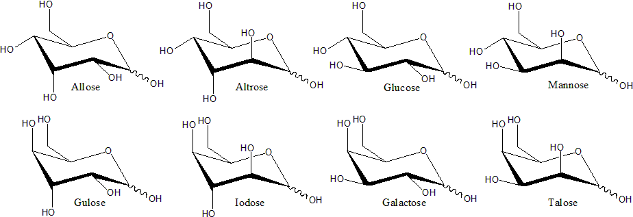 Structure_of_D-hexoses